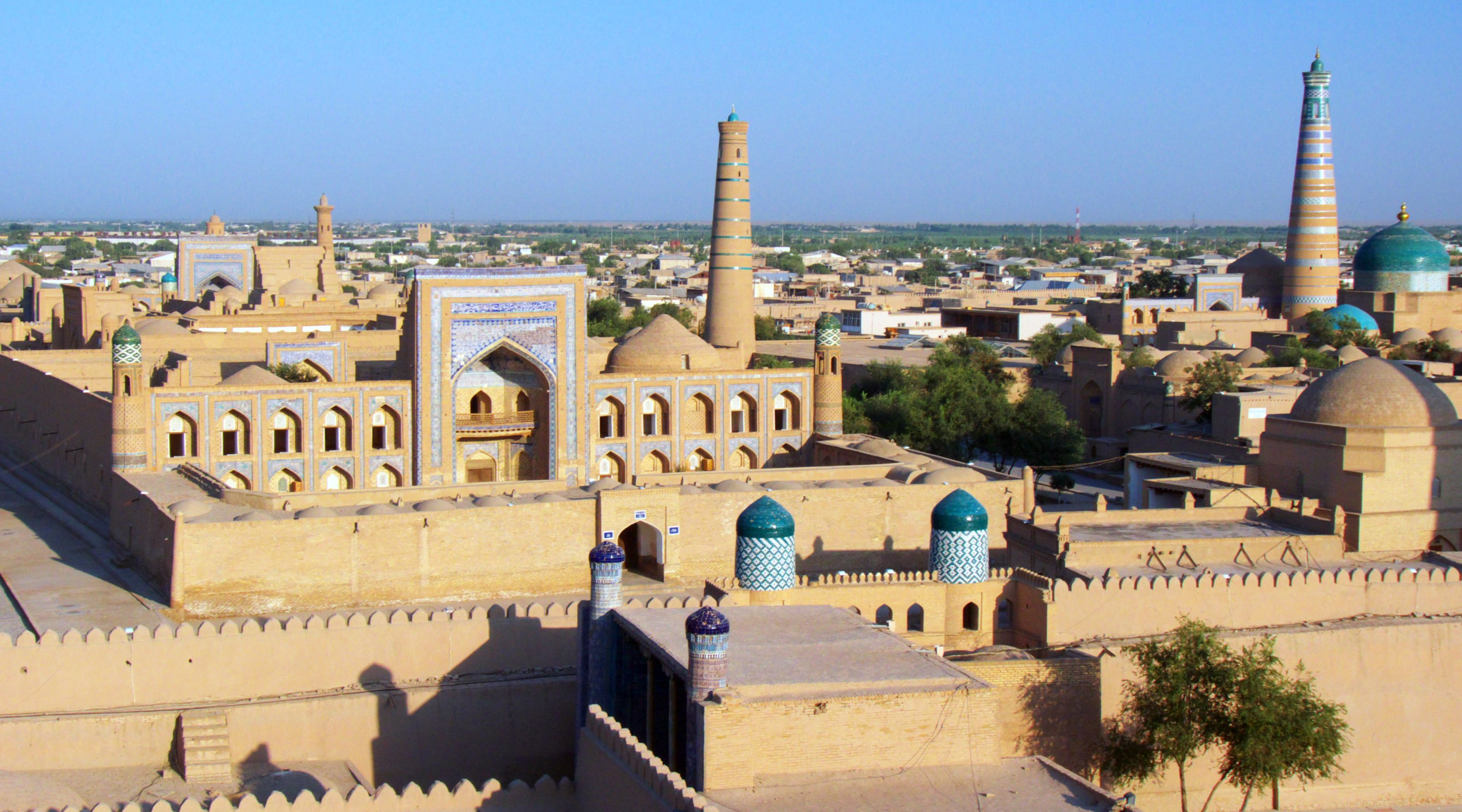 View from the city walls, Khiva